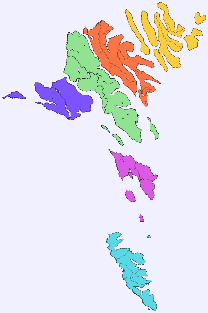 The six regions (sýslur) of the Faroe Islands: Blue: Vágar Green: Streymoy Red: Eysturoy Yellow: Norðoyar Violet: Sandoy Turquoise: Suðuroy